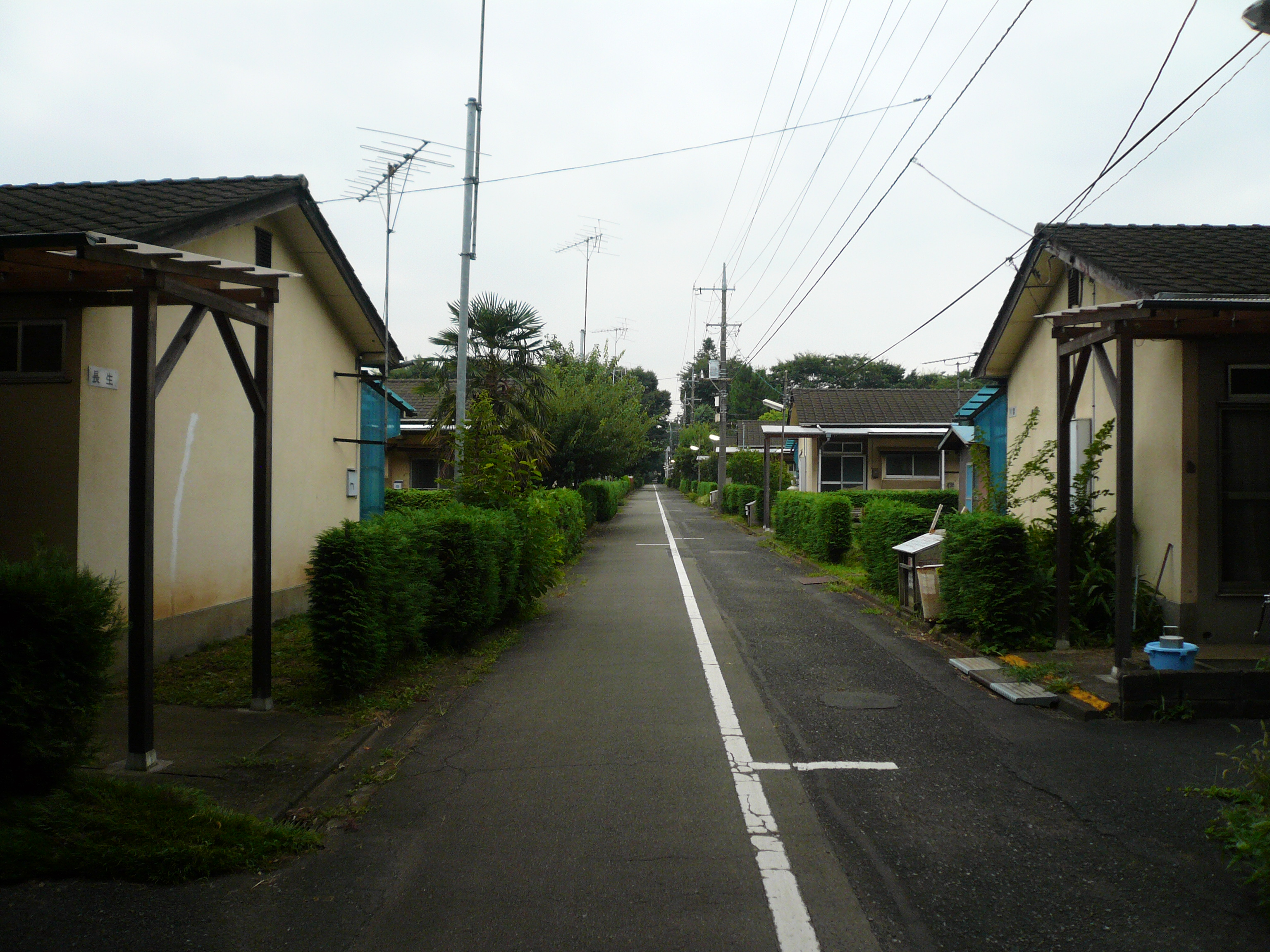 Tama-Zenshoen (多磨全生園) Sanatorium for Hansen's Disease (Leprosy), Higashimurayama, Tokyo, Japan. Residents afflicted with Hansen's Disease were forced to live here. These houses are still occupied.